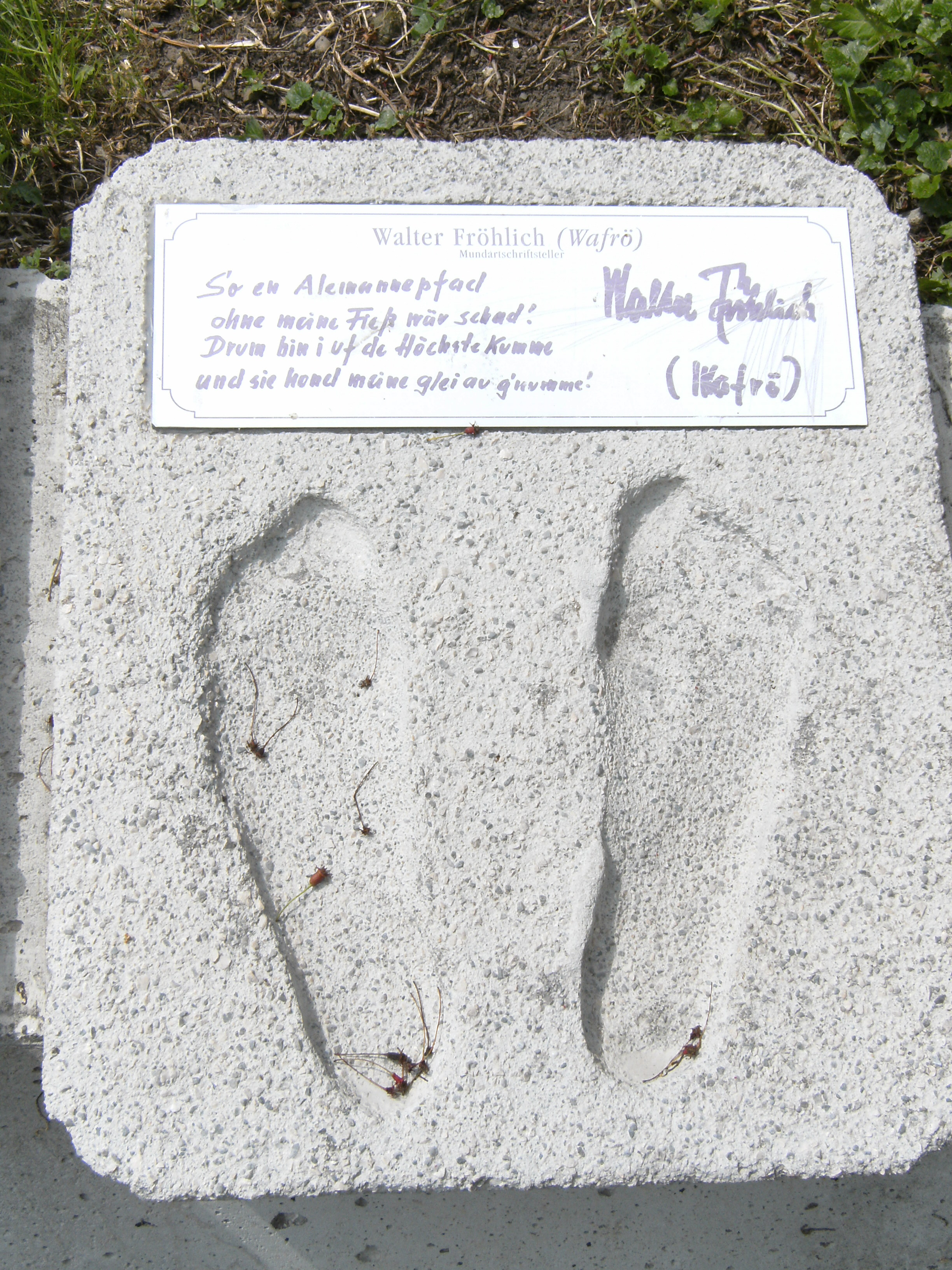 Footprints of alemannic author Walter Fröhlich on the Schwäbisch-alemannischer Mundartweg.